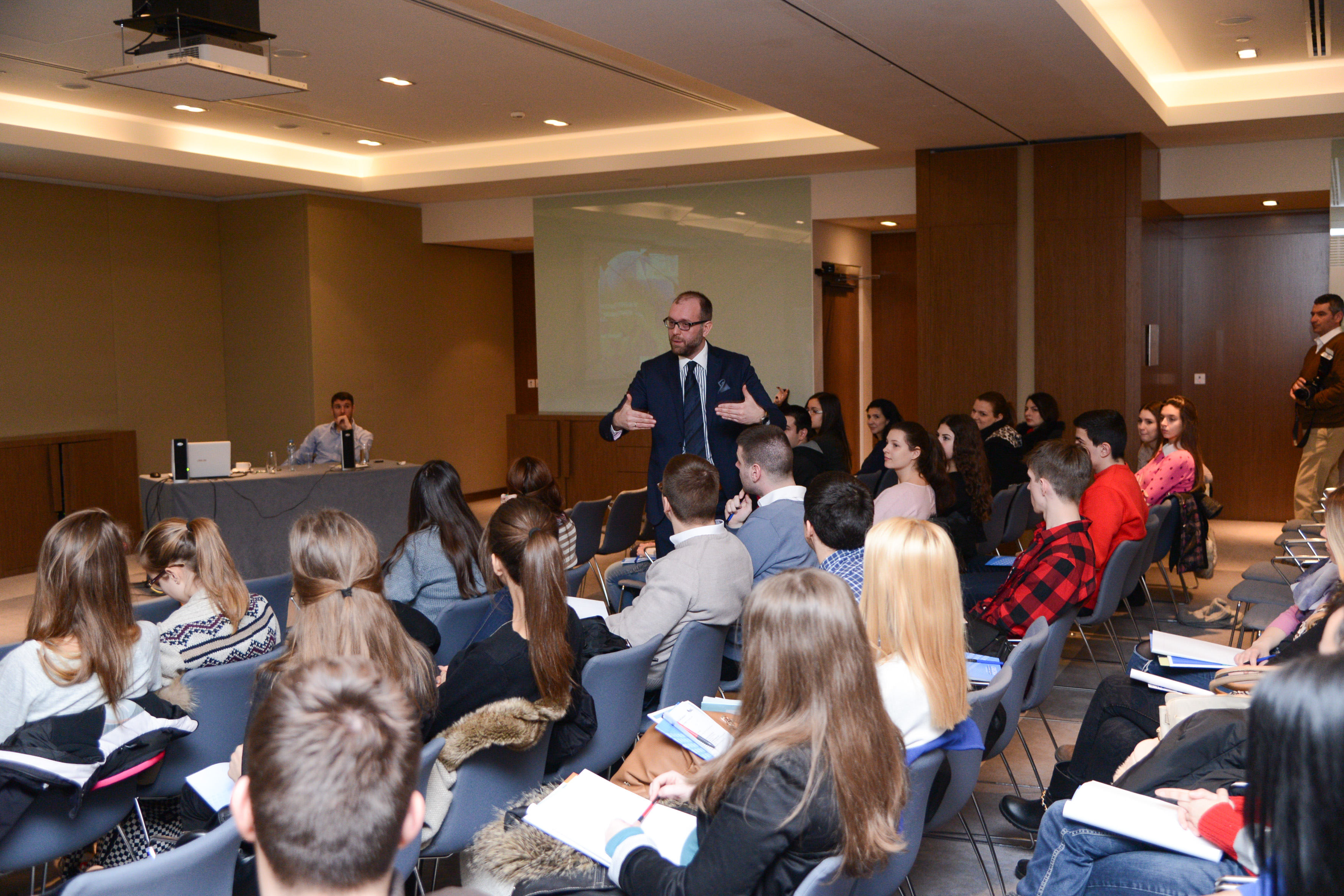 Jedna od radionica/seminara